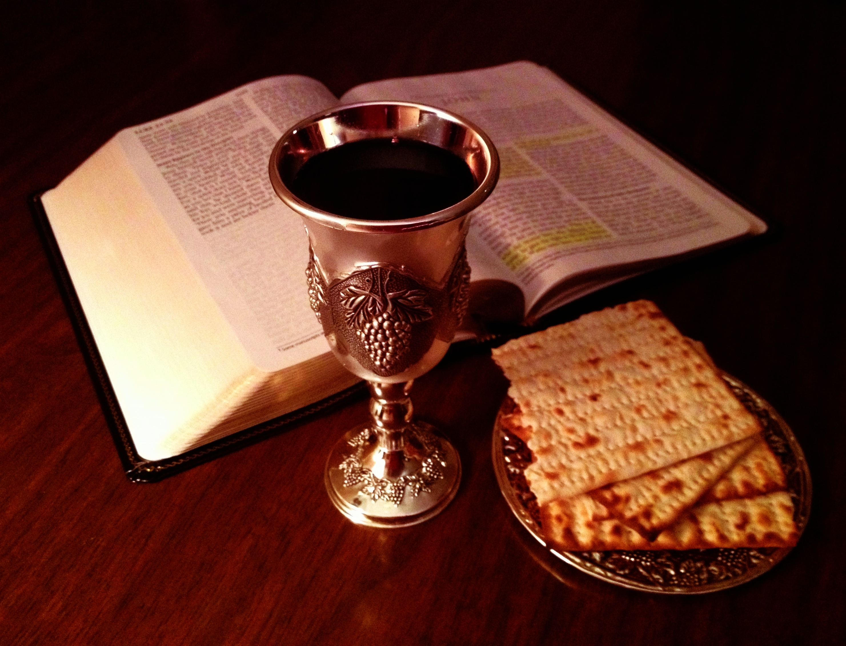 Lord's cup and bread and bible